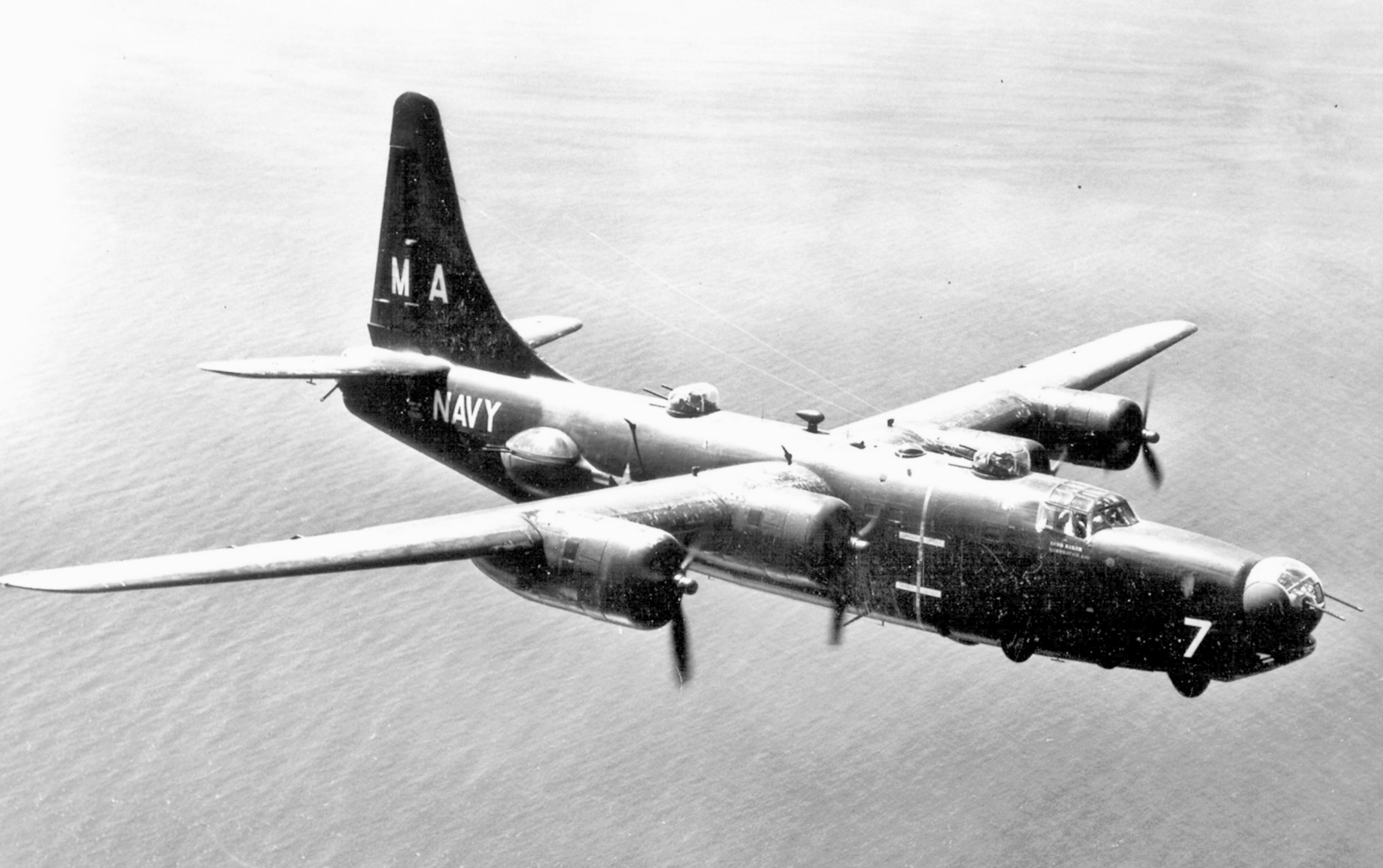 A U.S. Navy Consolidated PB4Y-2S Privateer (BuNo 66304) of Patrol Squadron VP-23, circa 1949-1953. This aircraft is today on display at the National Museum of Naval Aviation, Pensacola, Florida (USA).